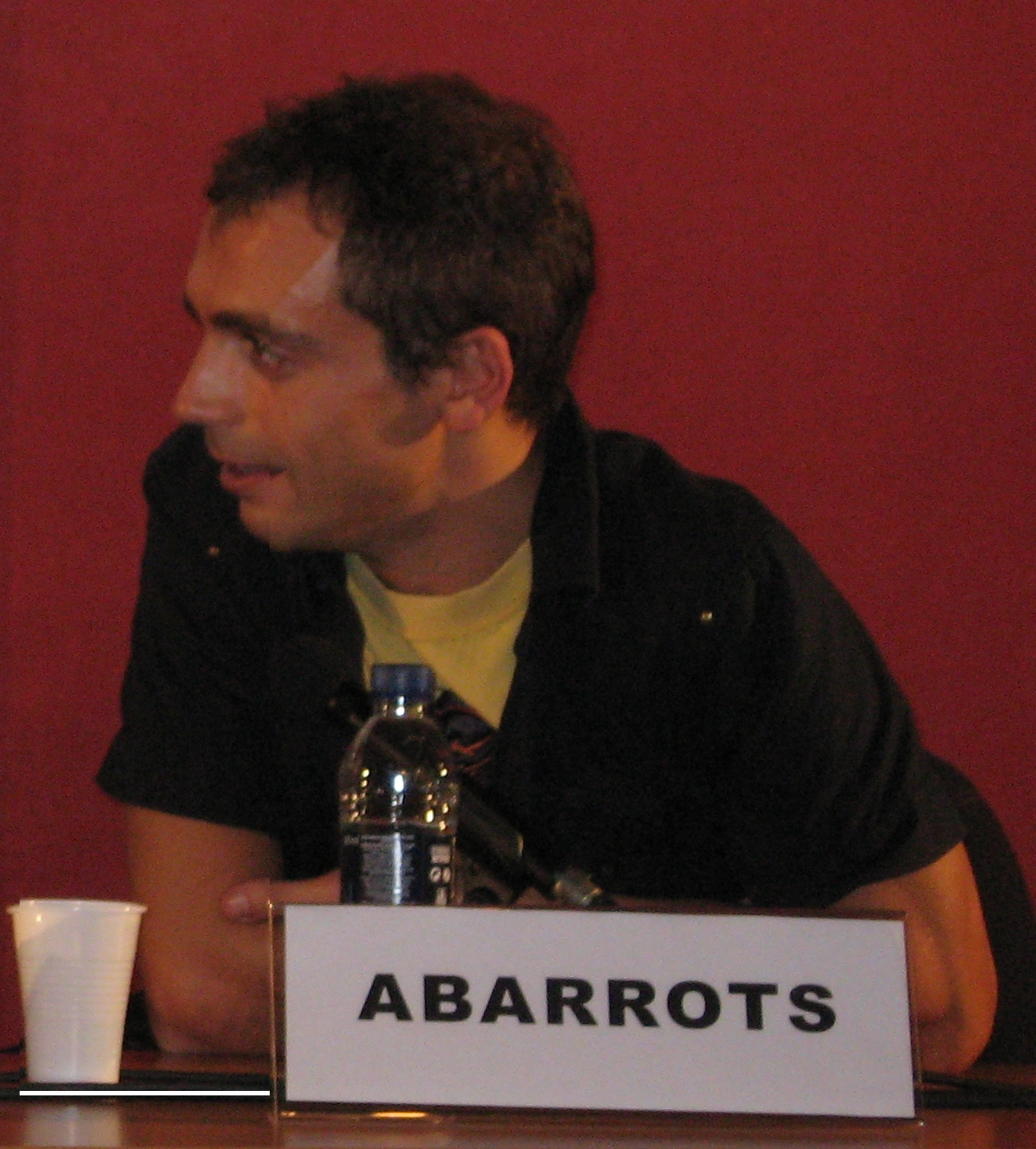 Spanish comic author Abarrots (Inda Abarrots Altolaguirre), at a debate during VI Getxo Comic Con